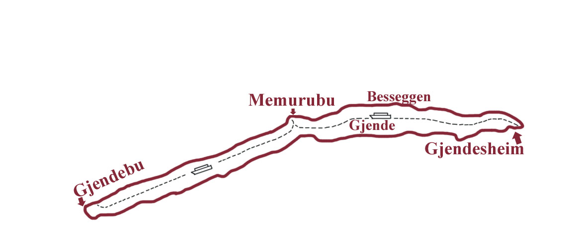 Drawing of lake Gjende with DNT cabins Gjendesheim, Memurubu and Gjendebu.